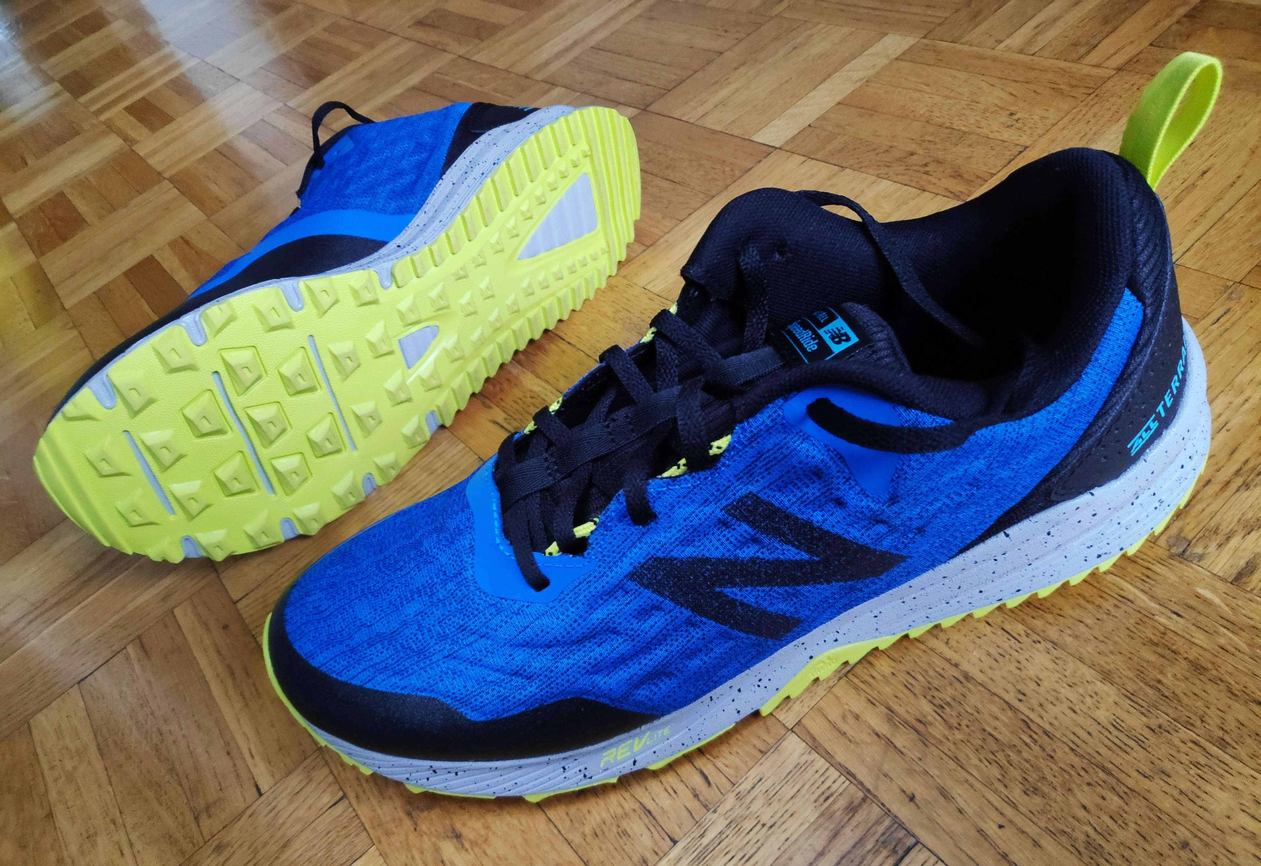 New Balance Fuel Core Nitrel trail (2019)